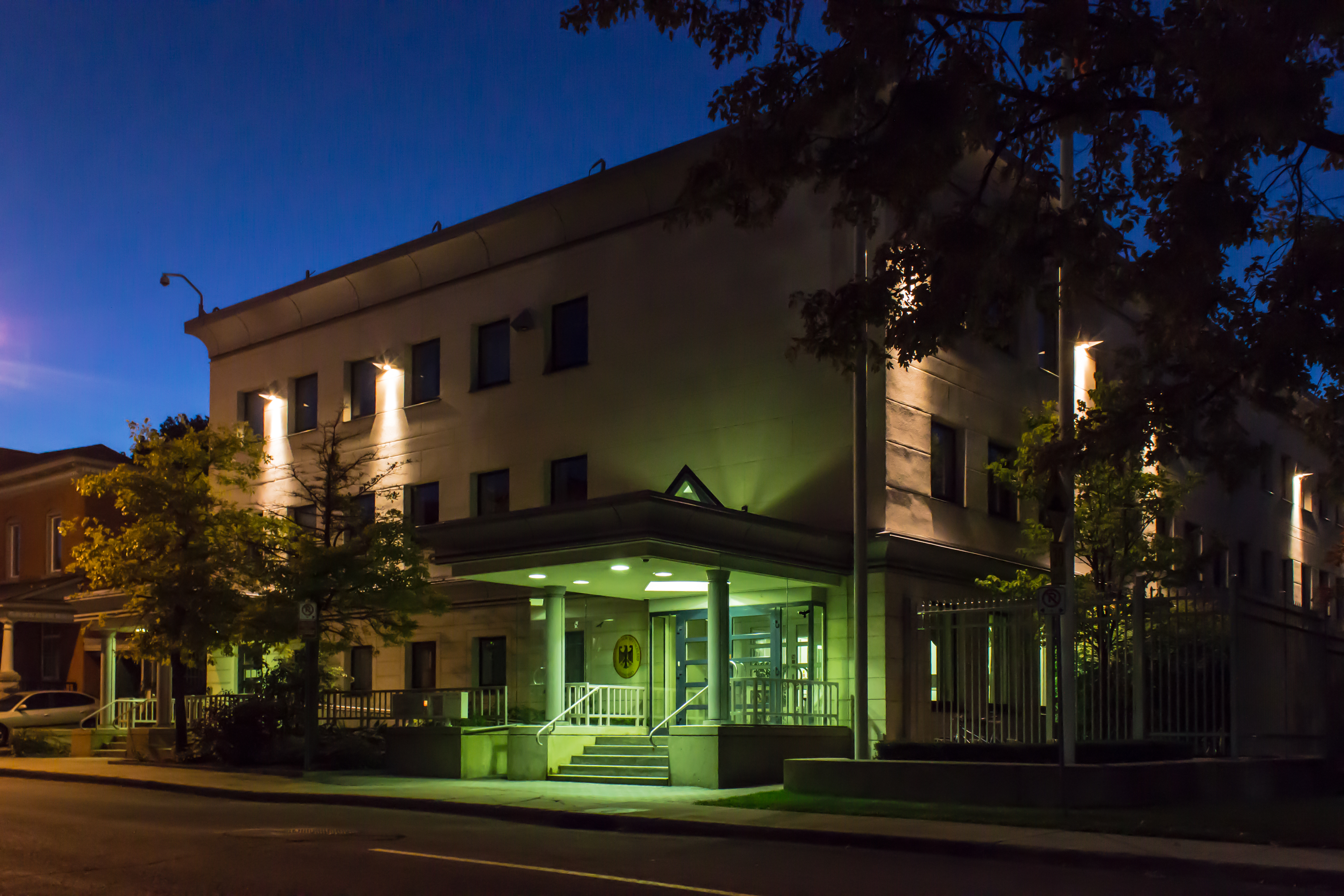 The German Embassy at Waverly Street as seen from Queen Elizabeth Drive in Ottawa during blue hour